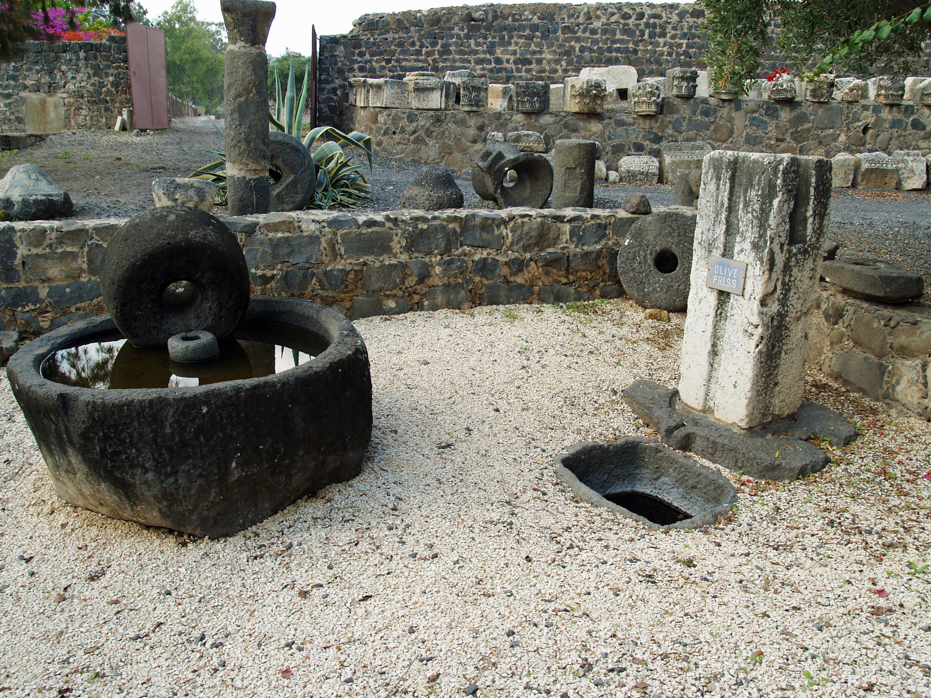 Capernaum Roman-era olive mill in the ruins of the town.